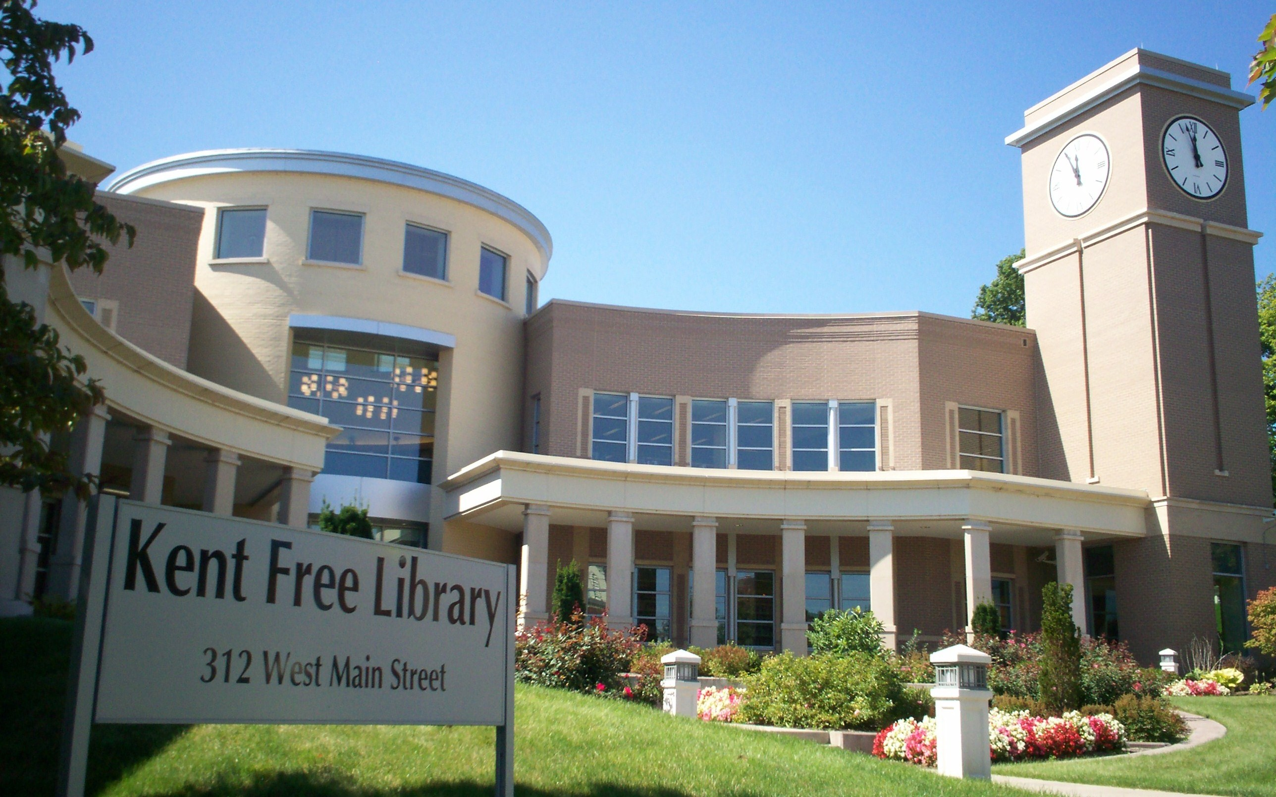 Photo of the Kent Free Library in Kent, Ohio. This portion, attached to the 1902 original Carnegie library, was built 2004-2006 after previous additions were demolished. It opened September 26, 2006.